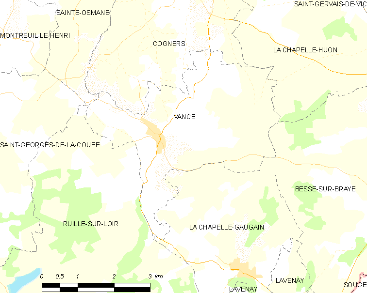 Map of French municipality